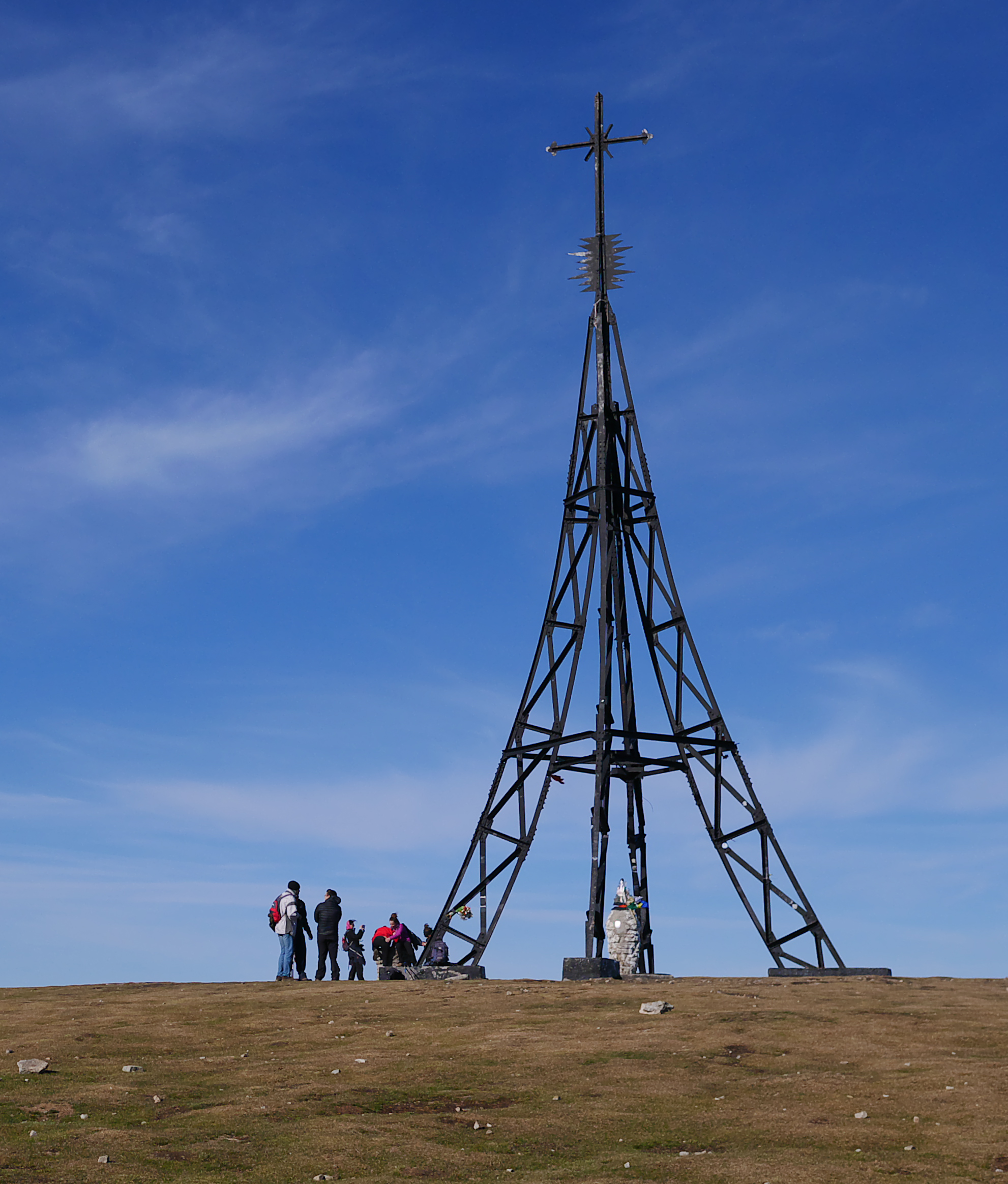 Gorbea mountain, summit cross. Álava/Bizkaia, Basque Country, Spain